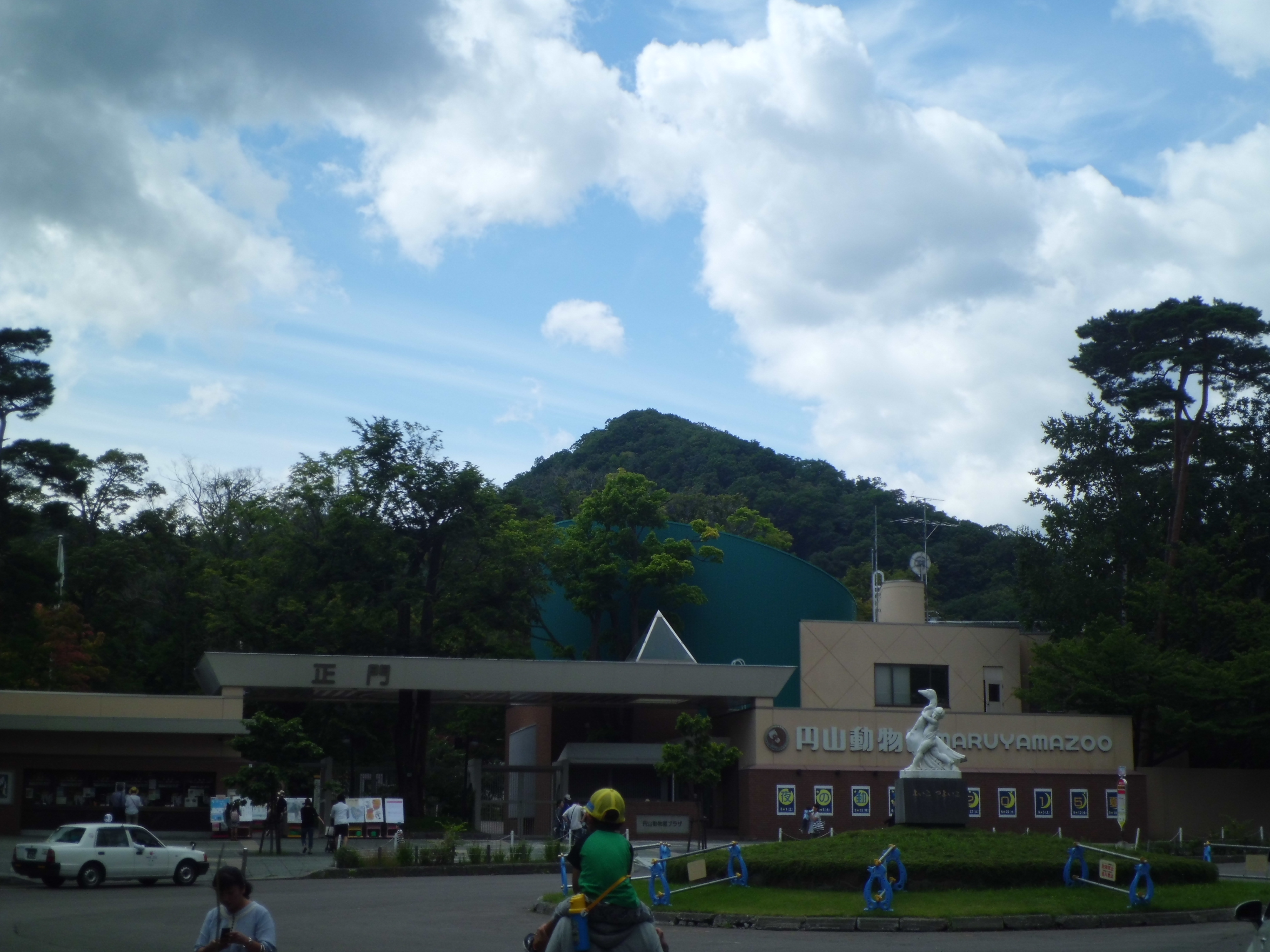 Entrance of Sapporo Maruyama Zoo